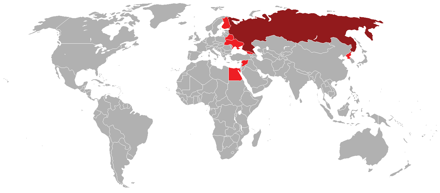 Current operators of the Buk missile system. Russia is shown in dark red.